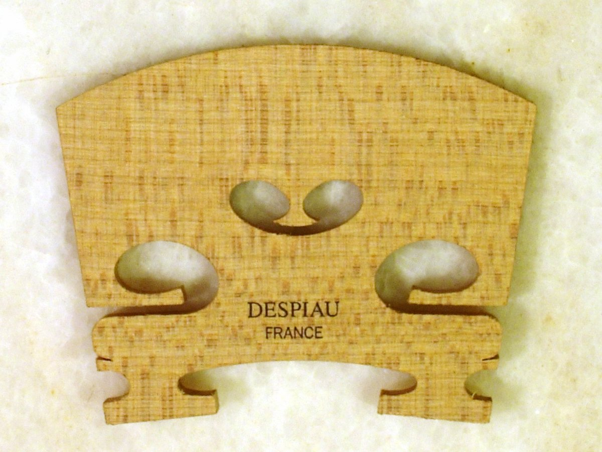 violin bridge blank front side, full (4/4, 42 mm foot spread) size